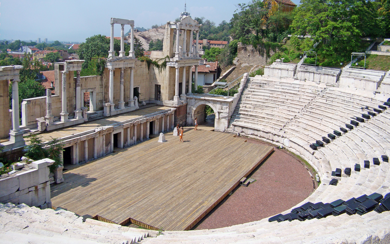 The Antiquie Theater of Plovdiv, Булгариа